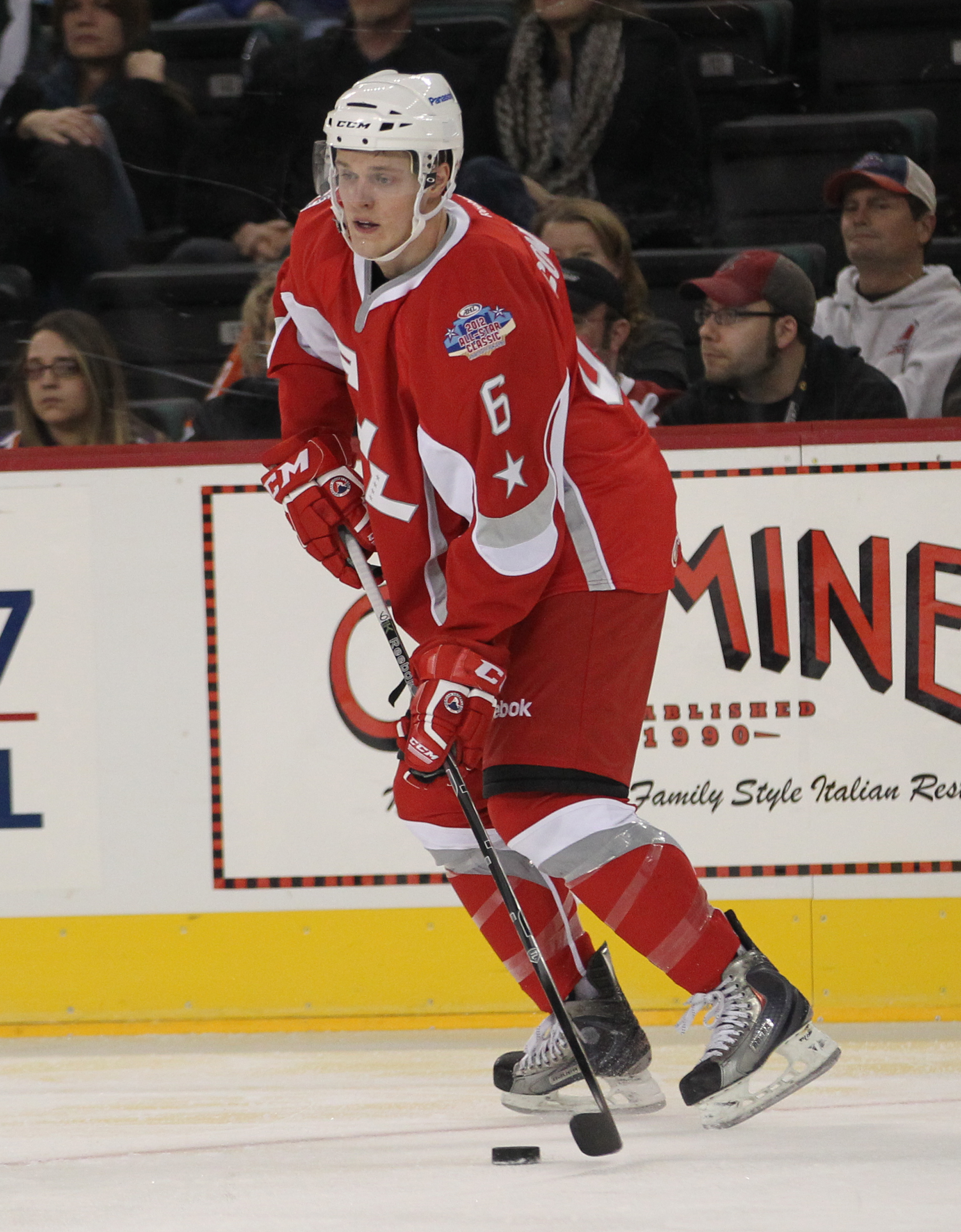 PhotoGraphics Photography/AHL American Hockey League (AHL) All-Star Game. Boardwalk Hall - Atlantic City, NJ Taken on January 30, 2012 using a Canon EOS-1D Mark IV.